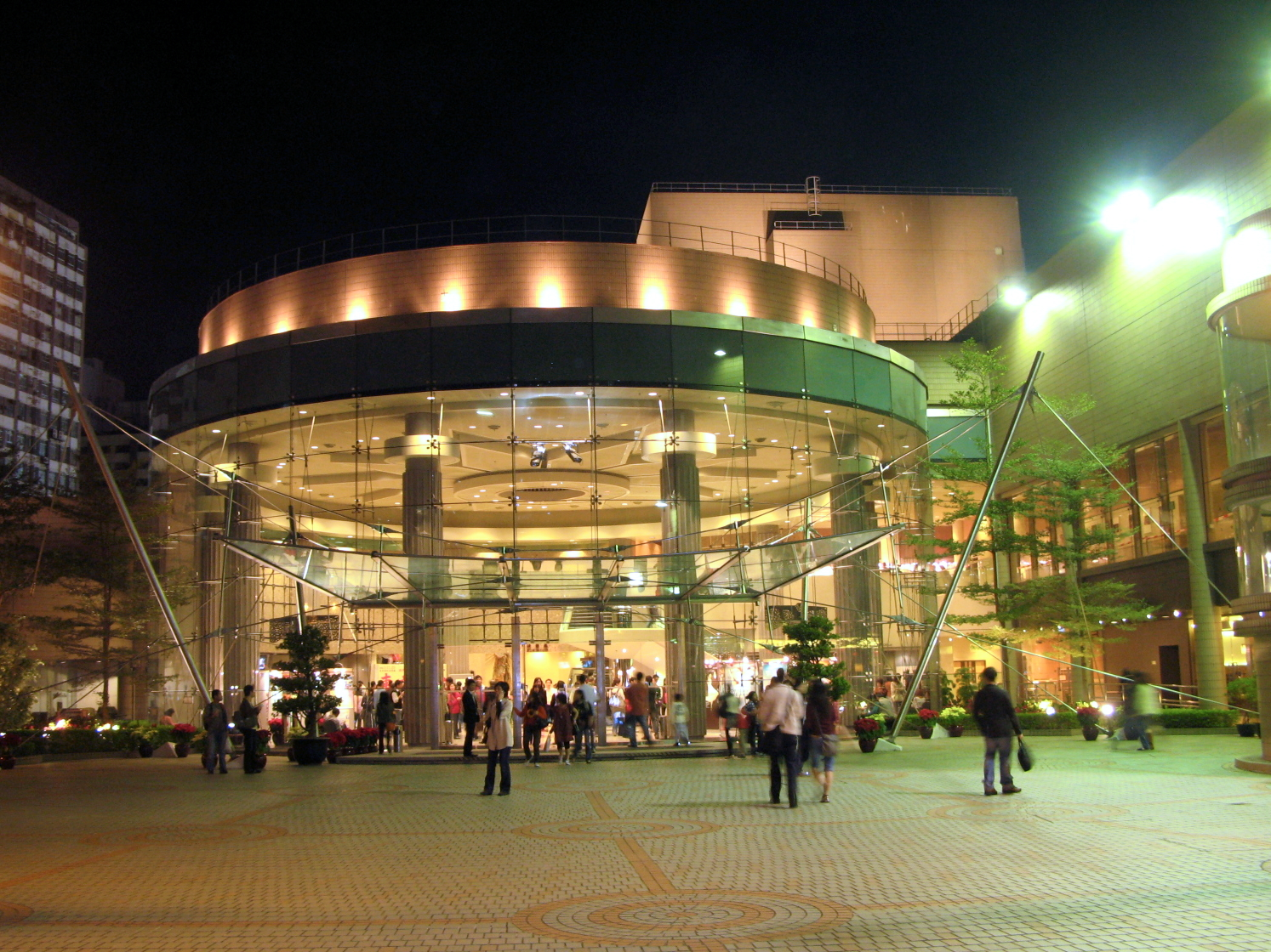 Kwai Tsing Theatre at Night